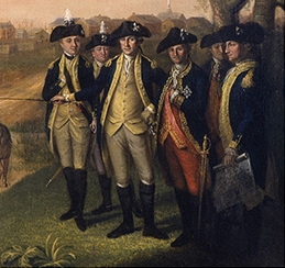 Detail from Washington and his generals at Yorktown by Charles Willson Peale